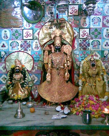 Ranchod Ji temple at Motagaon, Banswara